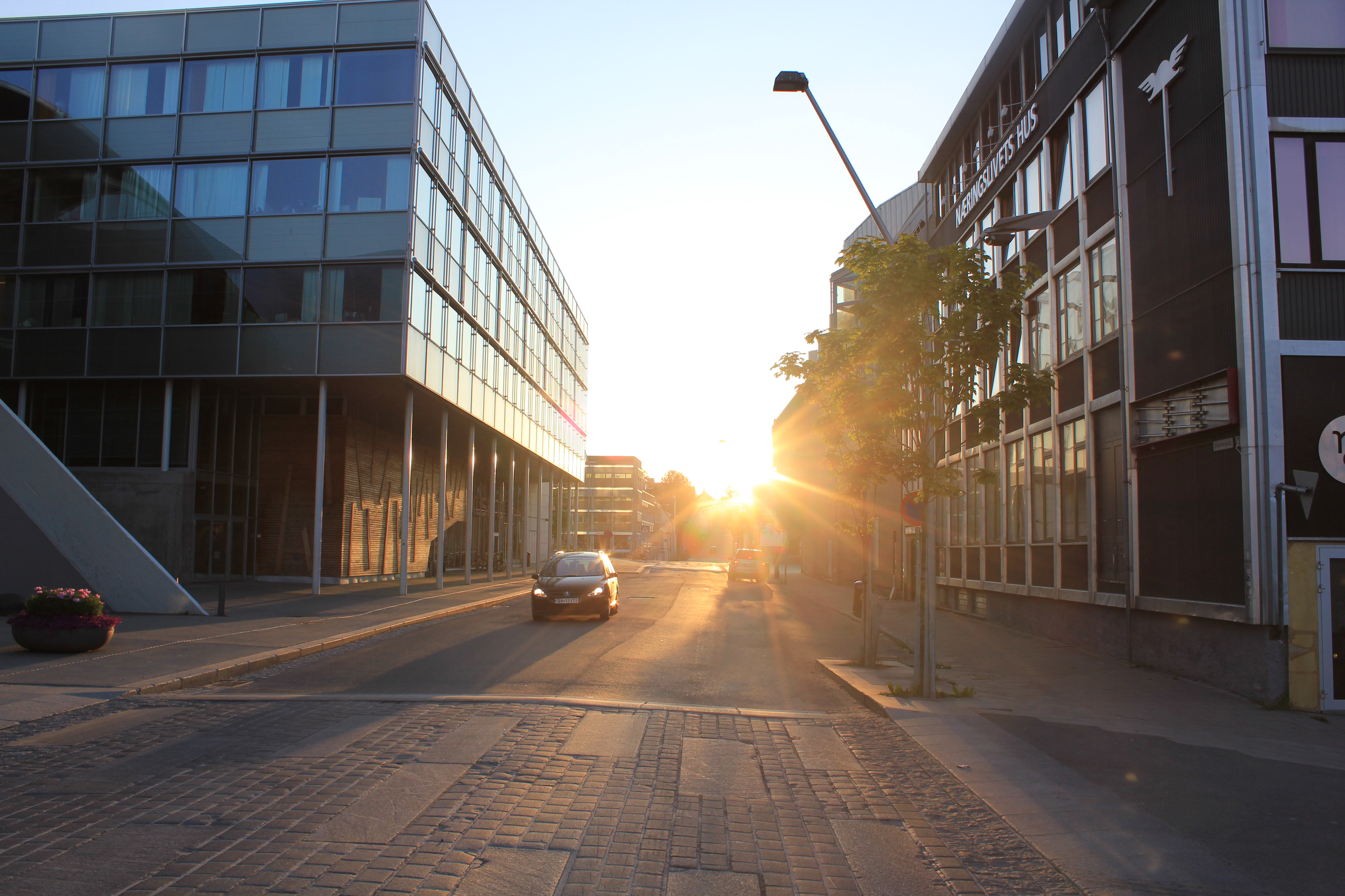 Grønnegata, Street in the city centre of Tromsø, Norway during midnight sun